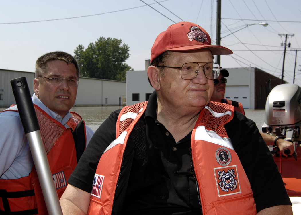 Ohio 5th District Congressman Paul Gillmor (1 February 1939 – c. 5 September 2007) touring flood devastated Ottawa, Ohio on August 24, 2007.